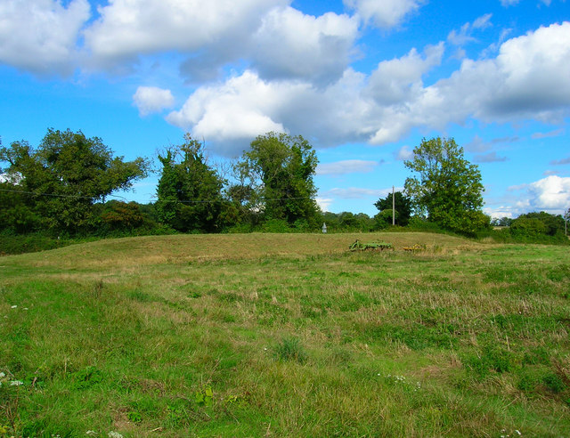 Bevis's Thumb. Neolithic barrow associated in folklore with the giant Bevis of Hampton. Bevis was associated with Southampton and Arundel which in myth was named after his horse Hirondelle. According to legend he was said to have thrown his sword from the battlements of Arundel Castle to mark his burial spot. This is one of three sites that claim its landing place, the others being near Havant and in the grounds of Arundel Park. The sword itself which is nearly 6 foot long is kept at Arundel Castle. The barrow is next to the bridleway leading up Telegraph Hill.